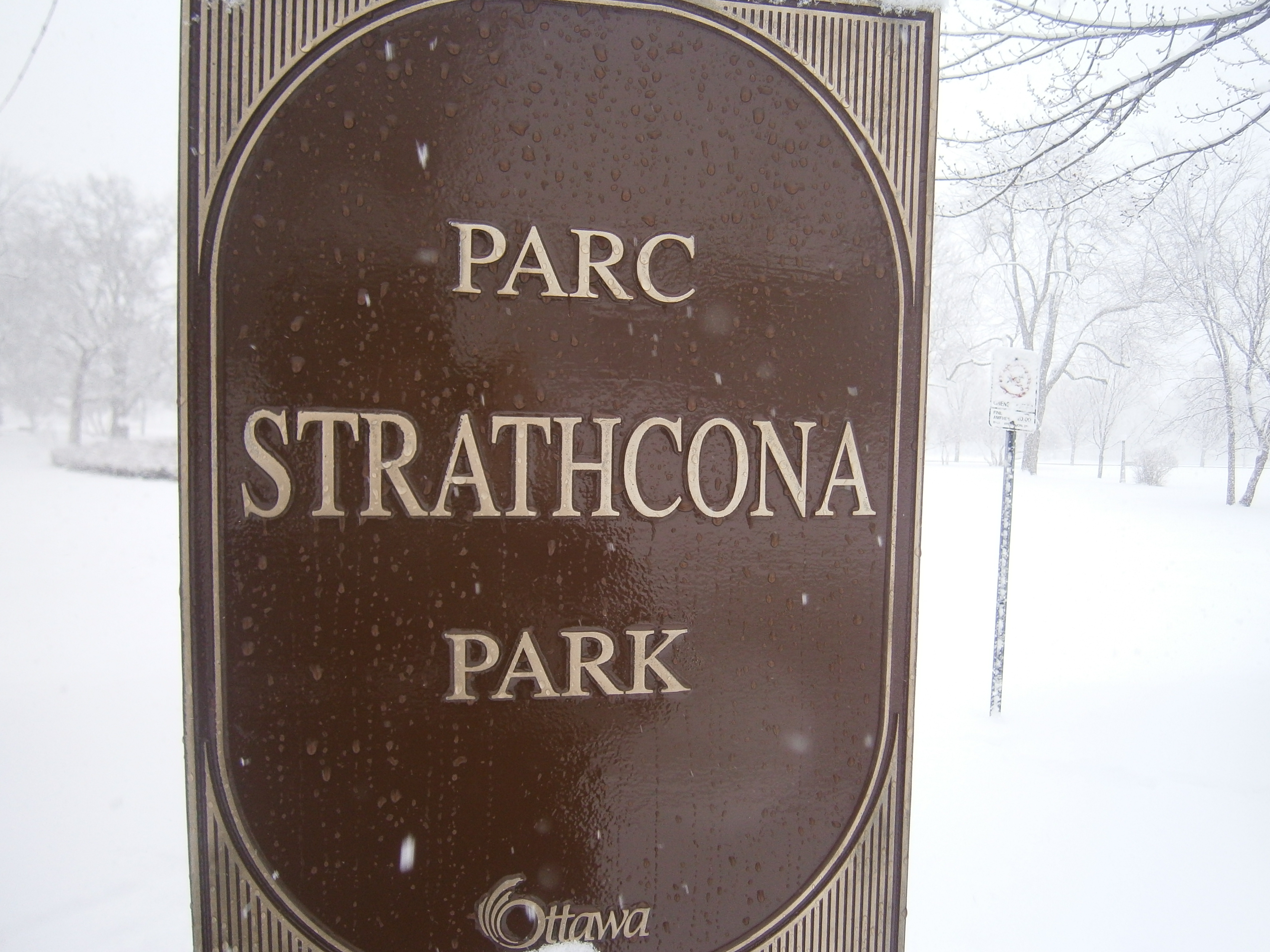 Strathcona Park in winter covered in snow. Sign.